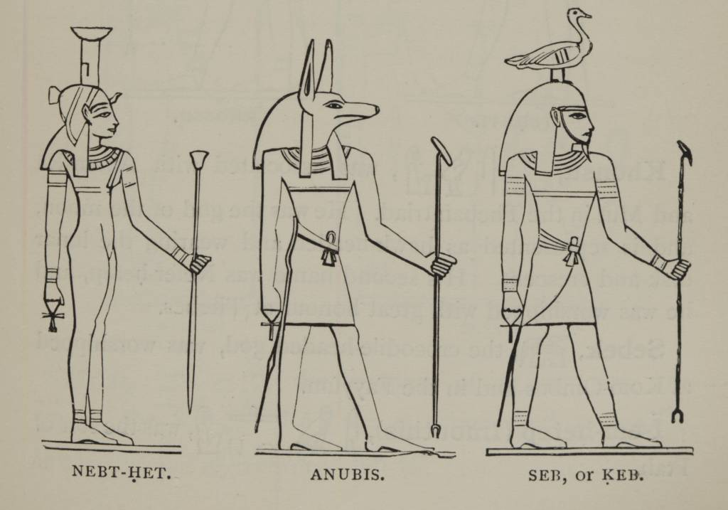 Drawings of the gods Nebt-Het, Anubis, and Seb.